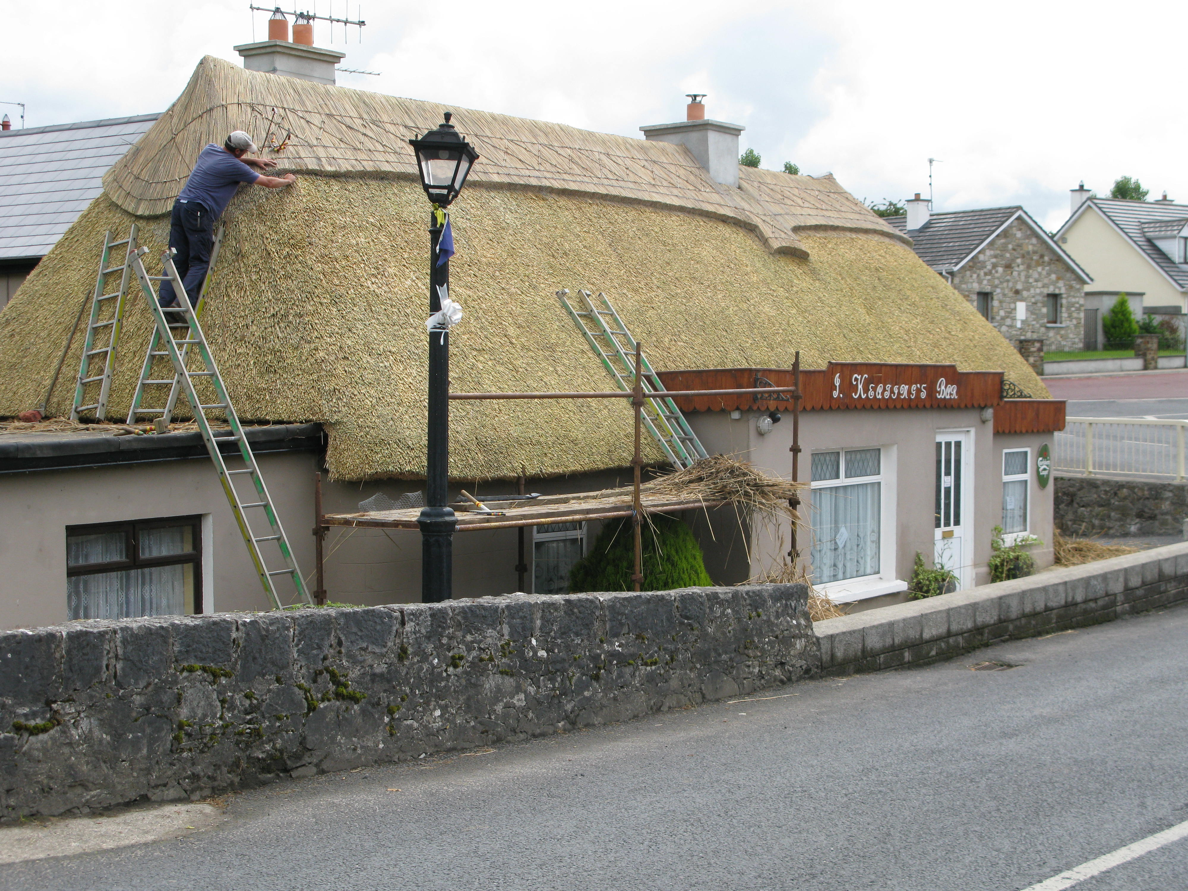 Thatching repairs at village pub, Ballylooby, 2010.